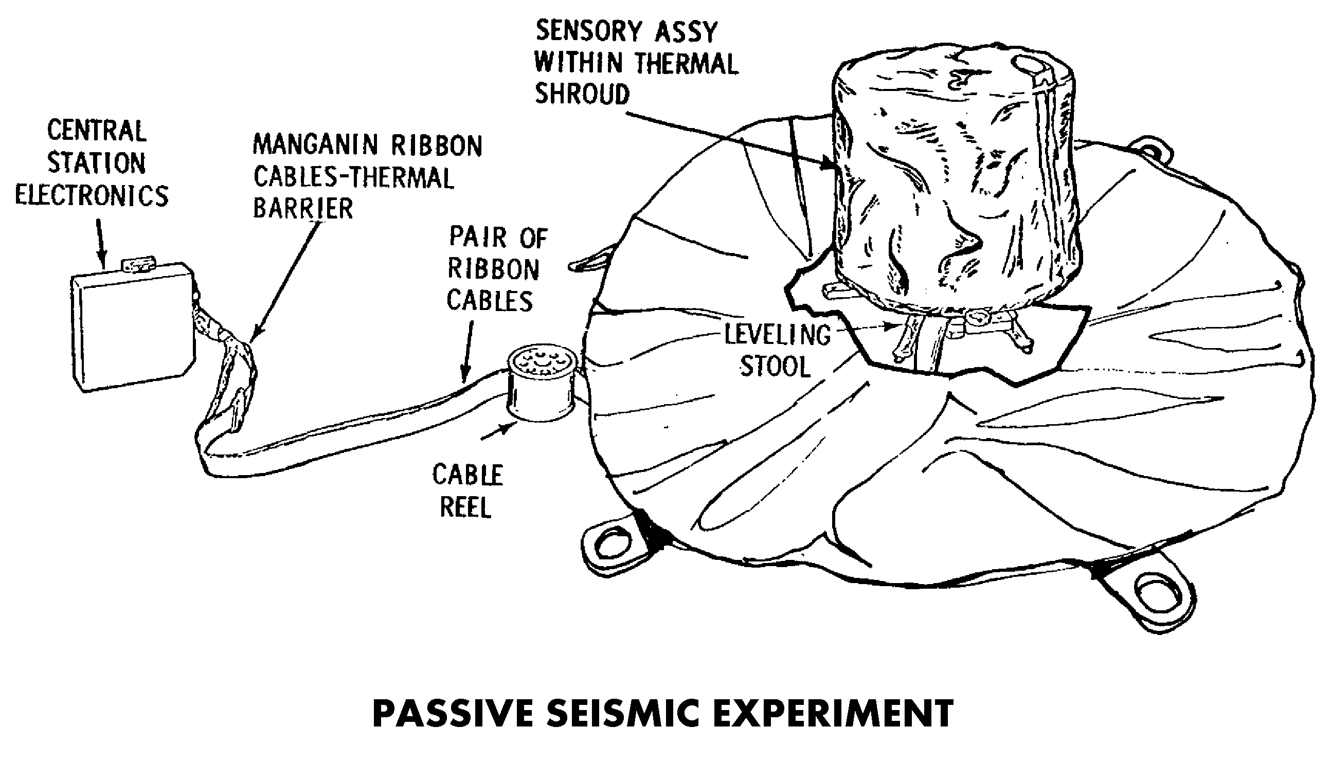 Diagram of the Passive Seismic Experiment. Part of the ALSEP.